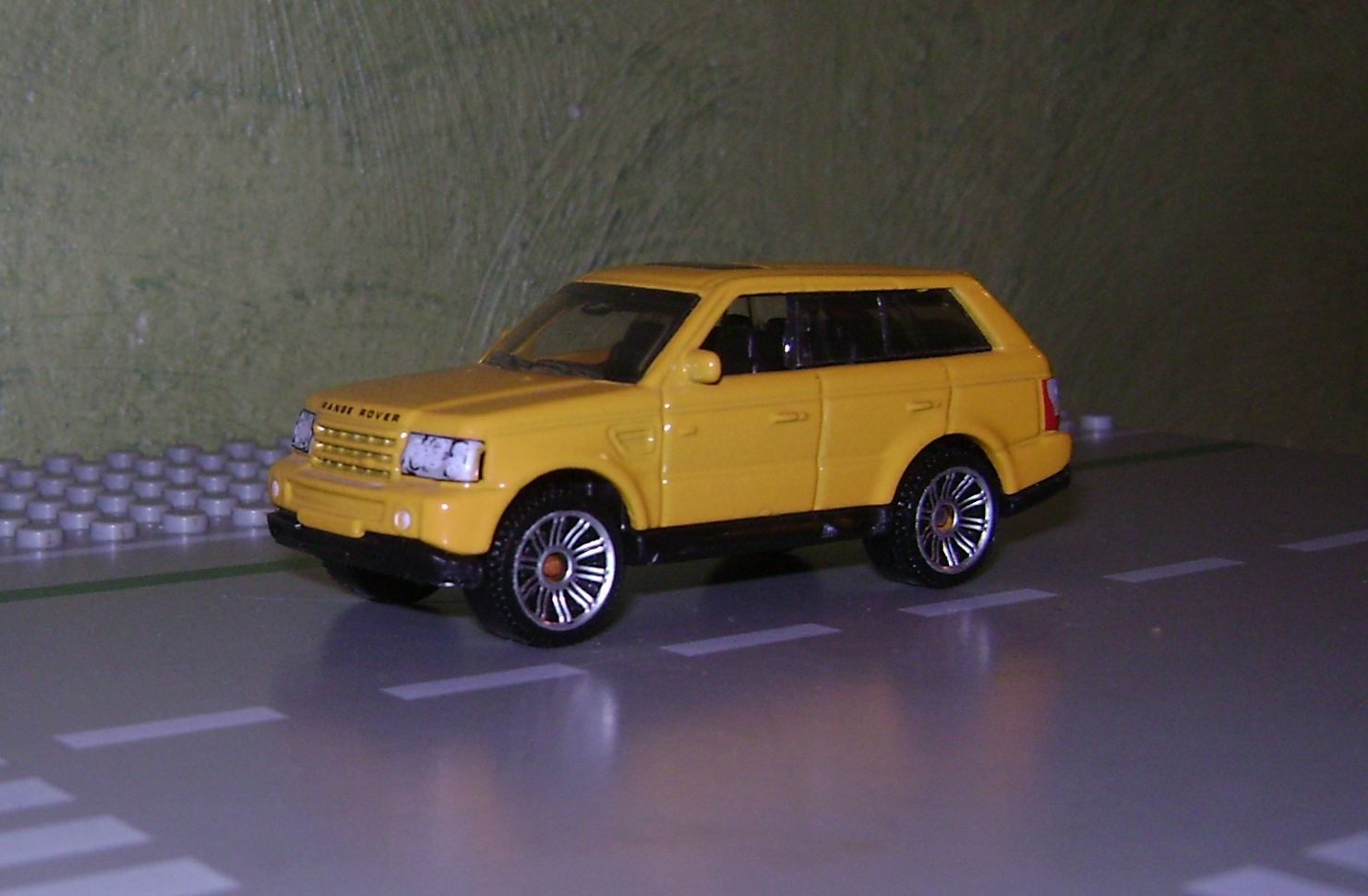 Model Matchbox - Range Rover Sport, 2005